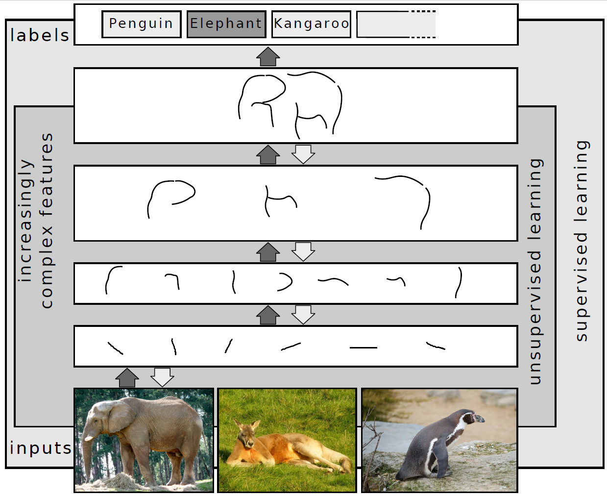 Schematic overview of layer-wise learning of feature hierarchies. Increasingly complex features are determined from input using unsupervised learning. The features can be used for supervised task learning.